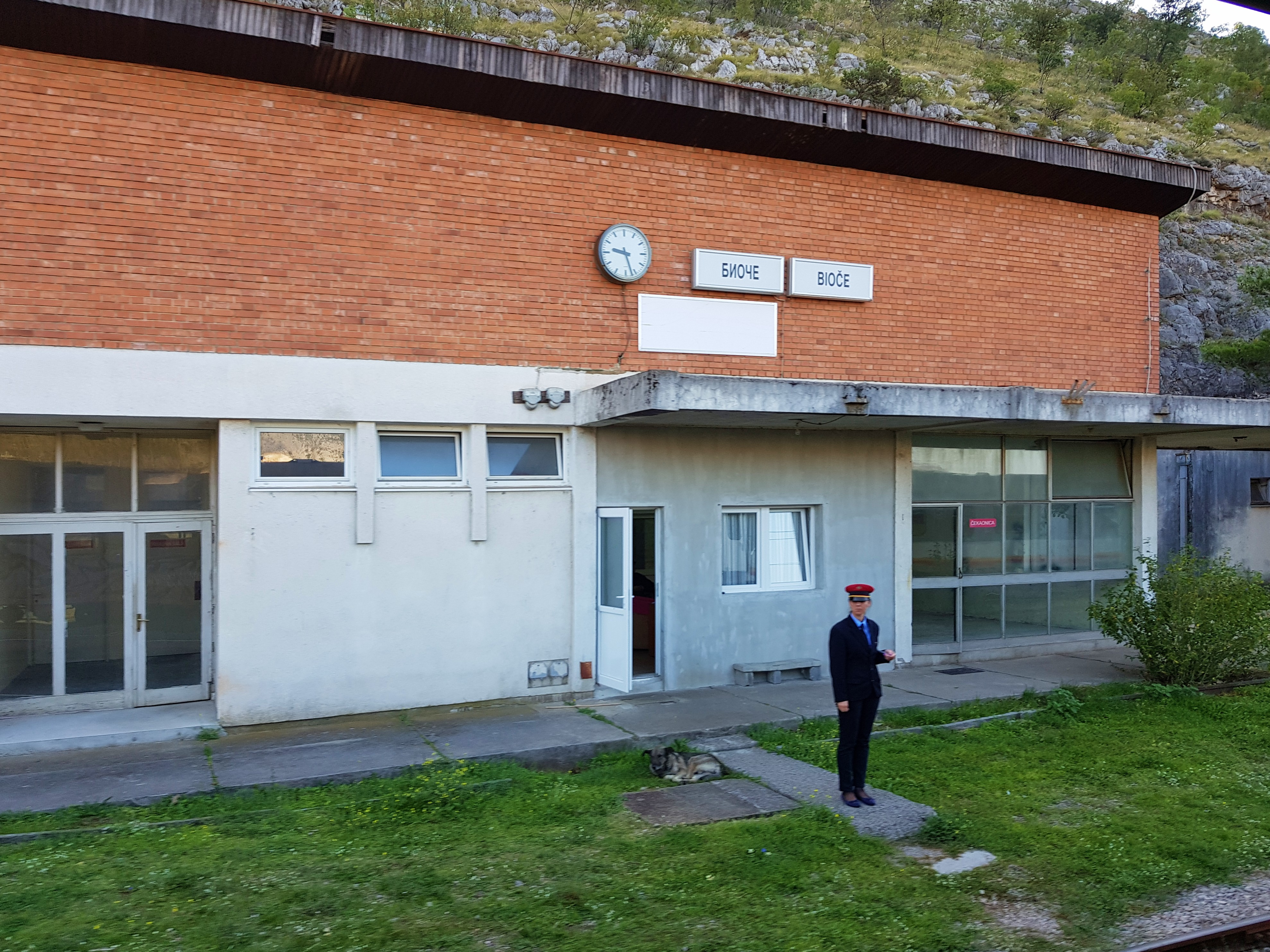 Bioče railway station